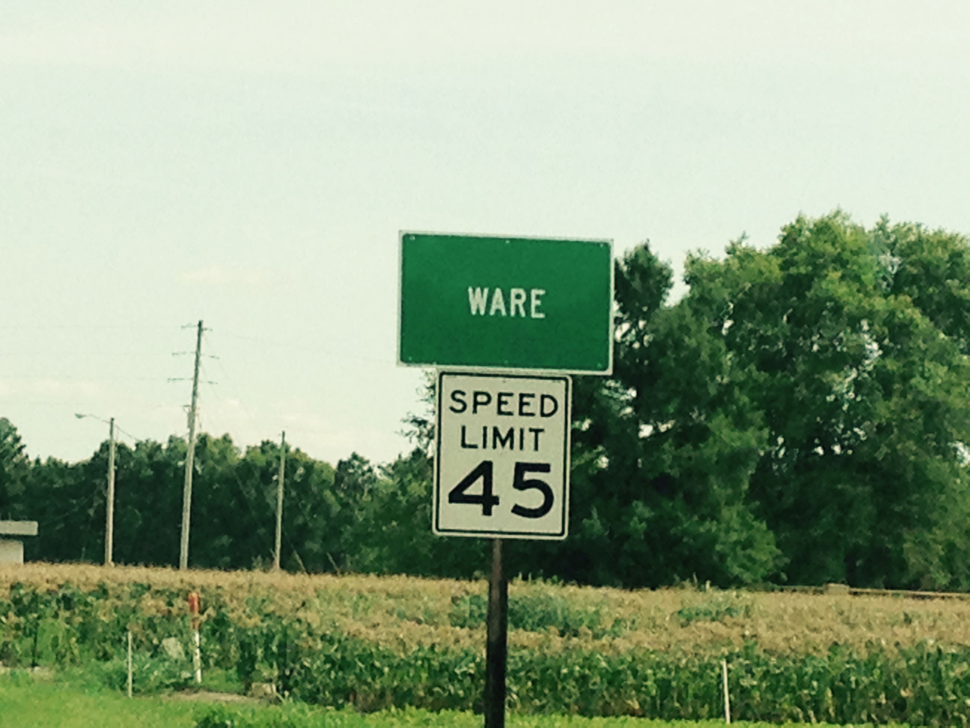 Ware, Illinois, town sign